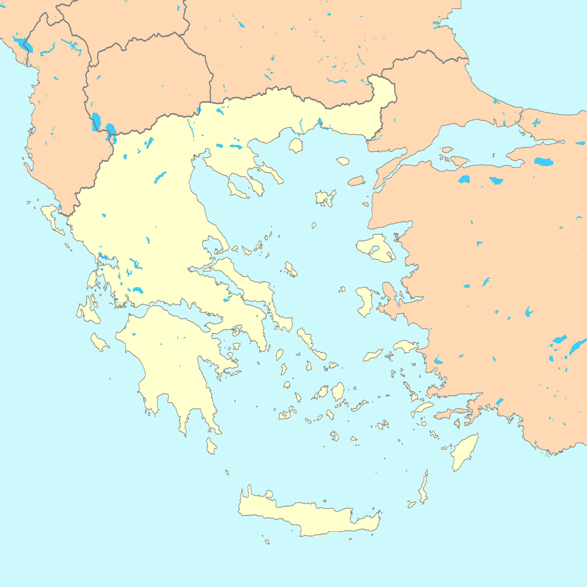 A blank map of Greece with most important topographic features (lakes, rivers)